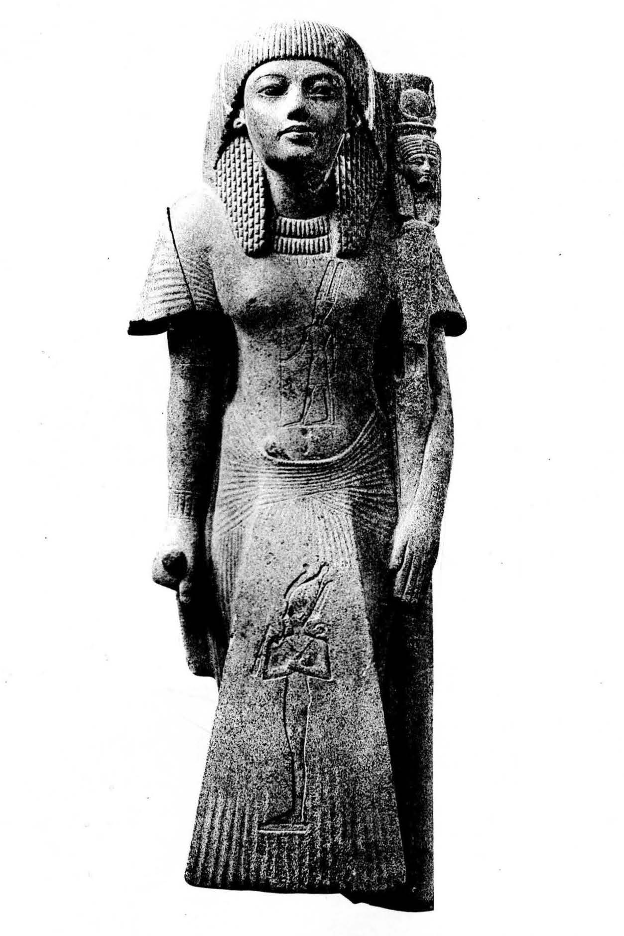 Standing statue of the High Priest of Amun Shoshenq, son of Osorkon I, holding a Hathor standard and mentioning his father Osorkon I and his mother Maatkare. Probably usurped from a statue of the time of Tutankhamun (18th dynasty). Reign of Osorkon I, 22th Dynasty, Third Intermediate Period. Breccia, H 0,48m, found in Karnak cachette, April 17 1904, now in Cairo Museum (CG 42194 / JE 36988).